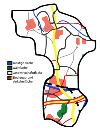 Land use of Kirchlengern, Kreis Herford, Germany